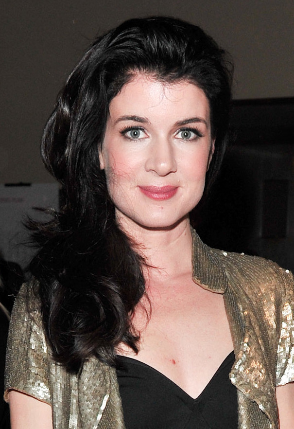 Actress Gabrielle Miller (Corner Gas) at the 18th CFC Annual Gala and Auction. To learn more about the CFC, please visit